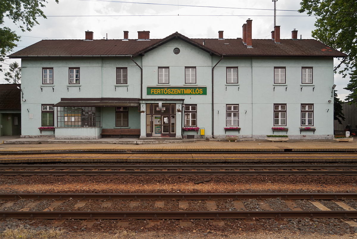 Fertőszentmiklós city train station